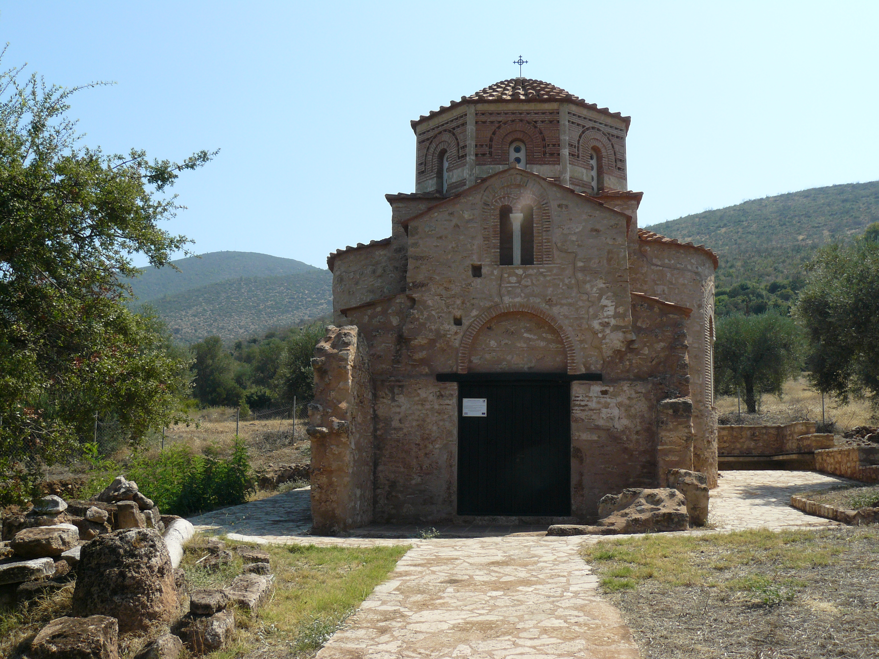 Larymna, Fthiotis, Greece: Church Agios Nikolaos about 2 km south of the village.